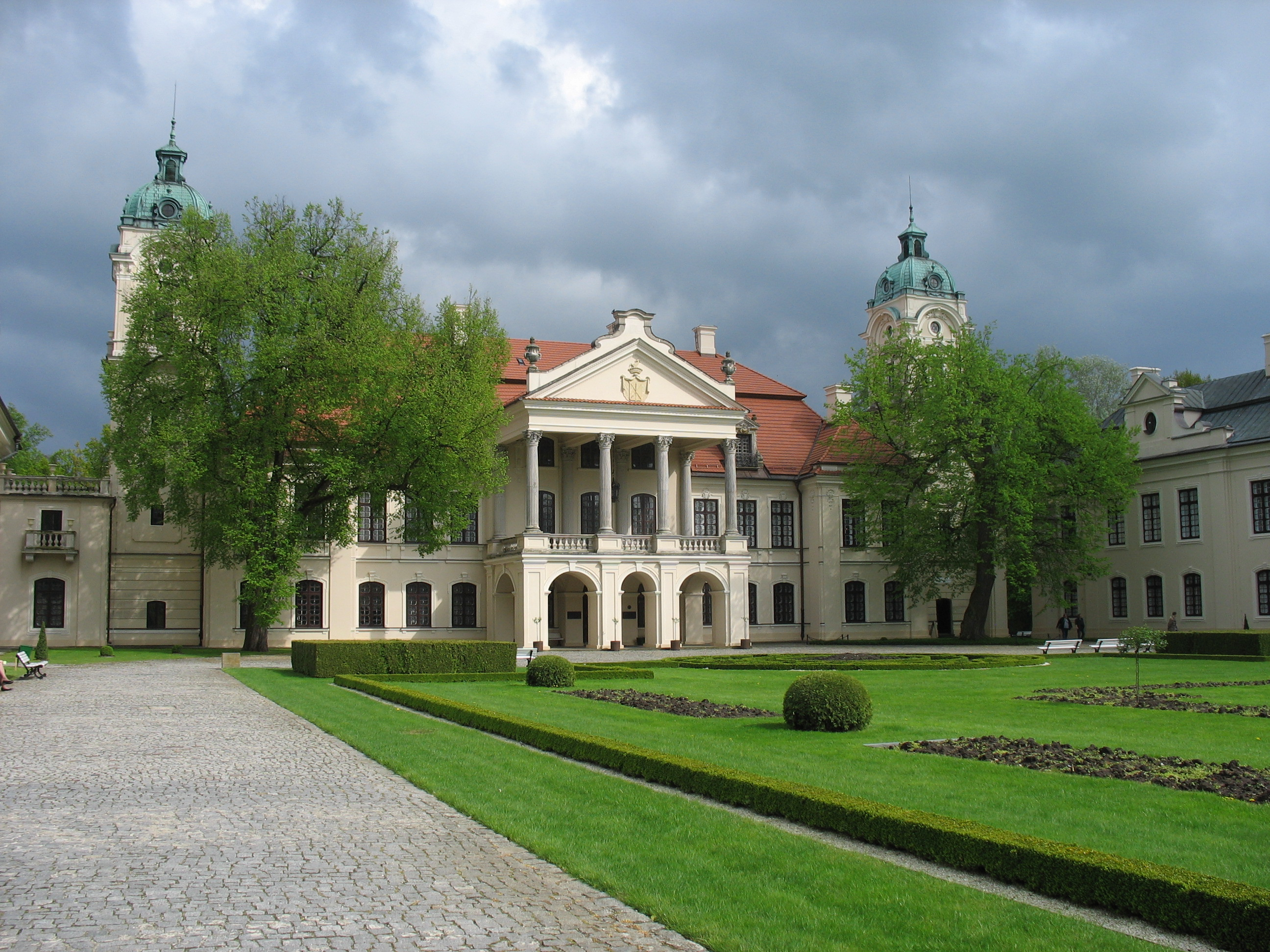 Palace in Kozłówka, Poland